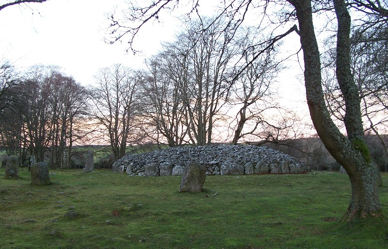 Clava cairn at Balnuaran of Clava, Scotland